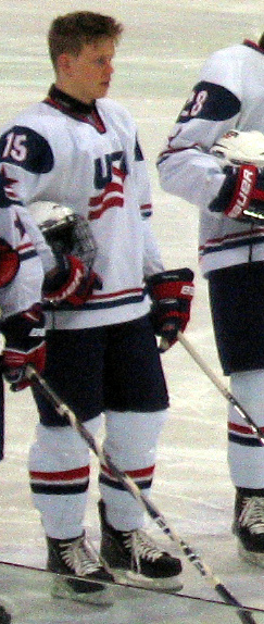 USA U18 Ice Hockey Team #15 Henrik Samuelsson